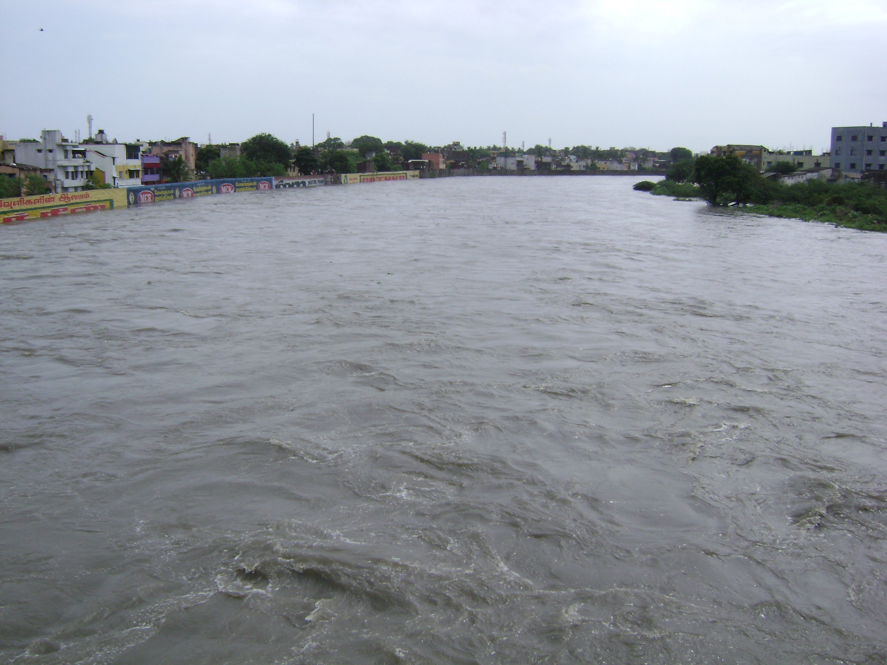 Floods in Adyar river on 28/11/2008